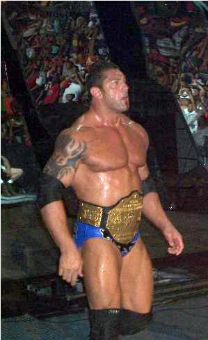 my personal photo (taken 9/20/2005 at SD! Taping in Lubbock, TX)